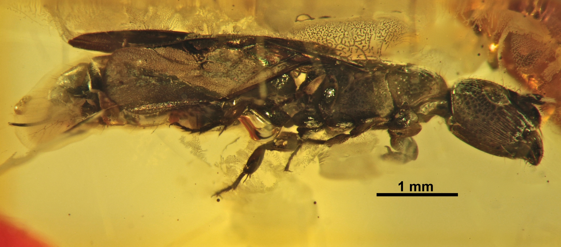 Profile view of the Cylindromyrmex antillanus holotype queen. Burdigalian, Miocene; Dominican amber, Dominican Republic Staatliches Museum fur Naturkunde, Stuttgart, Germany, specimen SMNSDO4130